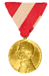 Civil Medal 1918